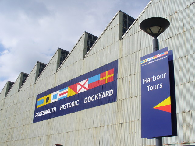 Portsmouth Historic Dockyard The sawtooth-roofed shed is brightened up by a colourful sign showing flags.